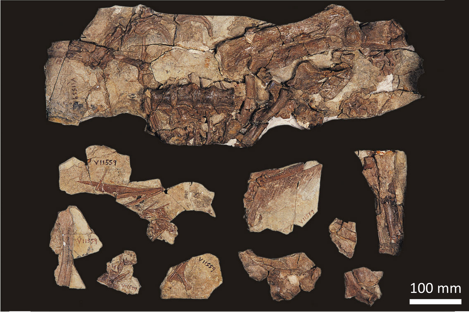 Most components of the holotype specimen of Beipiaosaurus inexpectus, IVPP V 11559. Derived from Supplementary Figure 1 in the source.